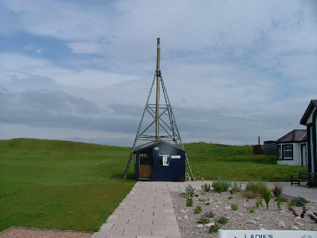 Elie Golf Course Starter Hut. The structure around the Starter Hut is to support a Periscope! Due to a sand dune you can't see the first green from the tee. They used to use a mirror, but the club were presented with the periscope by a member. The Periscope came from HMS Excalibur which was scrapped in 1968.